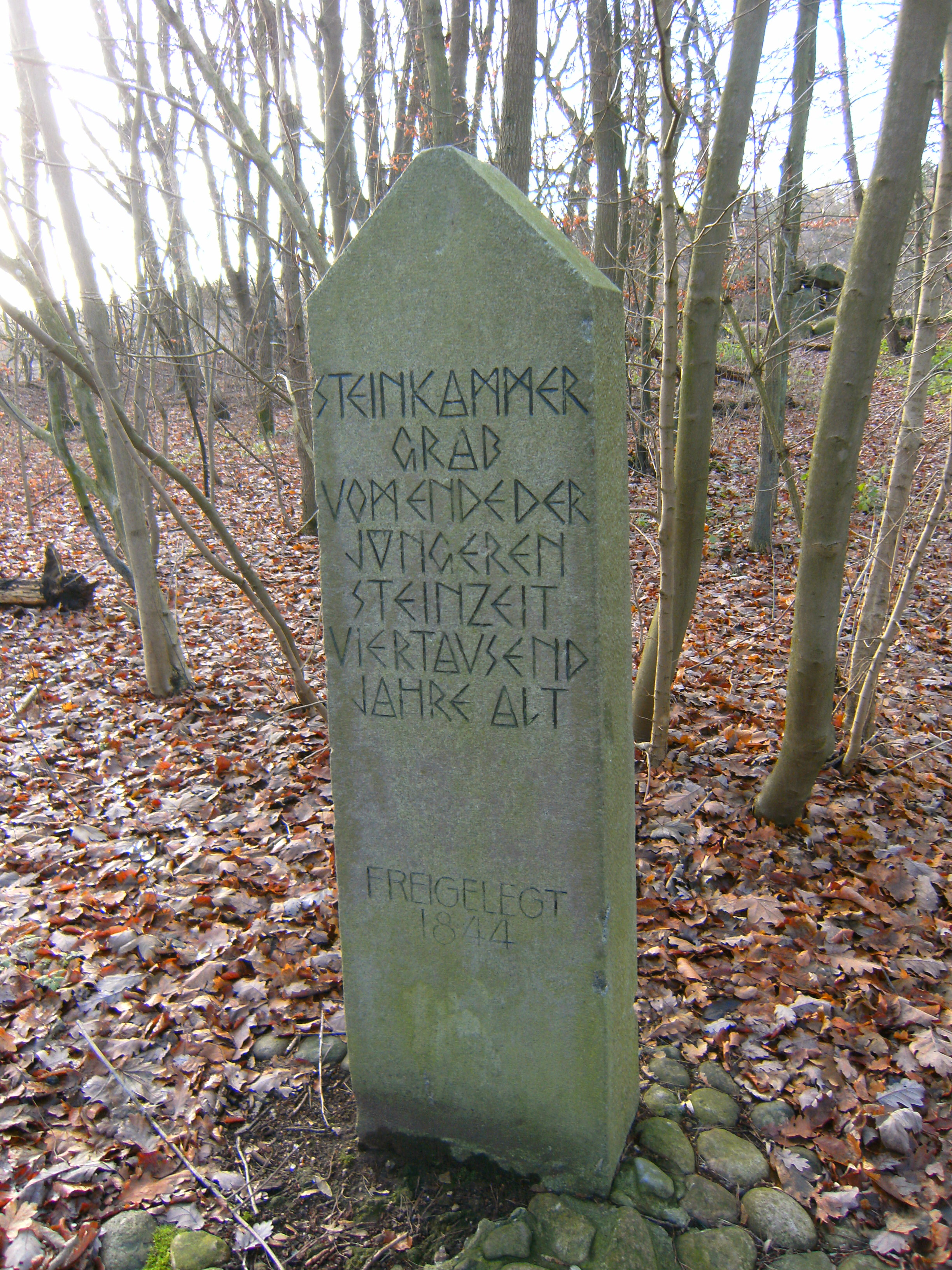 Megalithic burial place southwest of Pöppendorf (Pöppendorfer Großsteingrab) near Lübeck, Germany. Information stone: burial place is fourthousend years old.